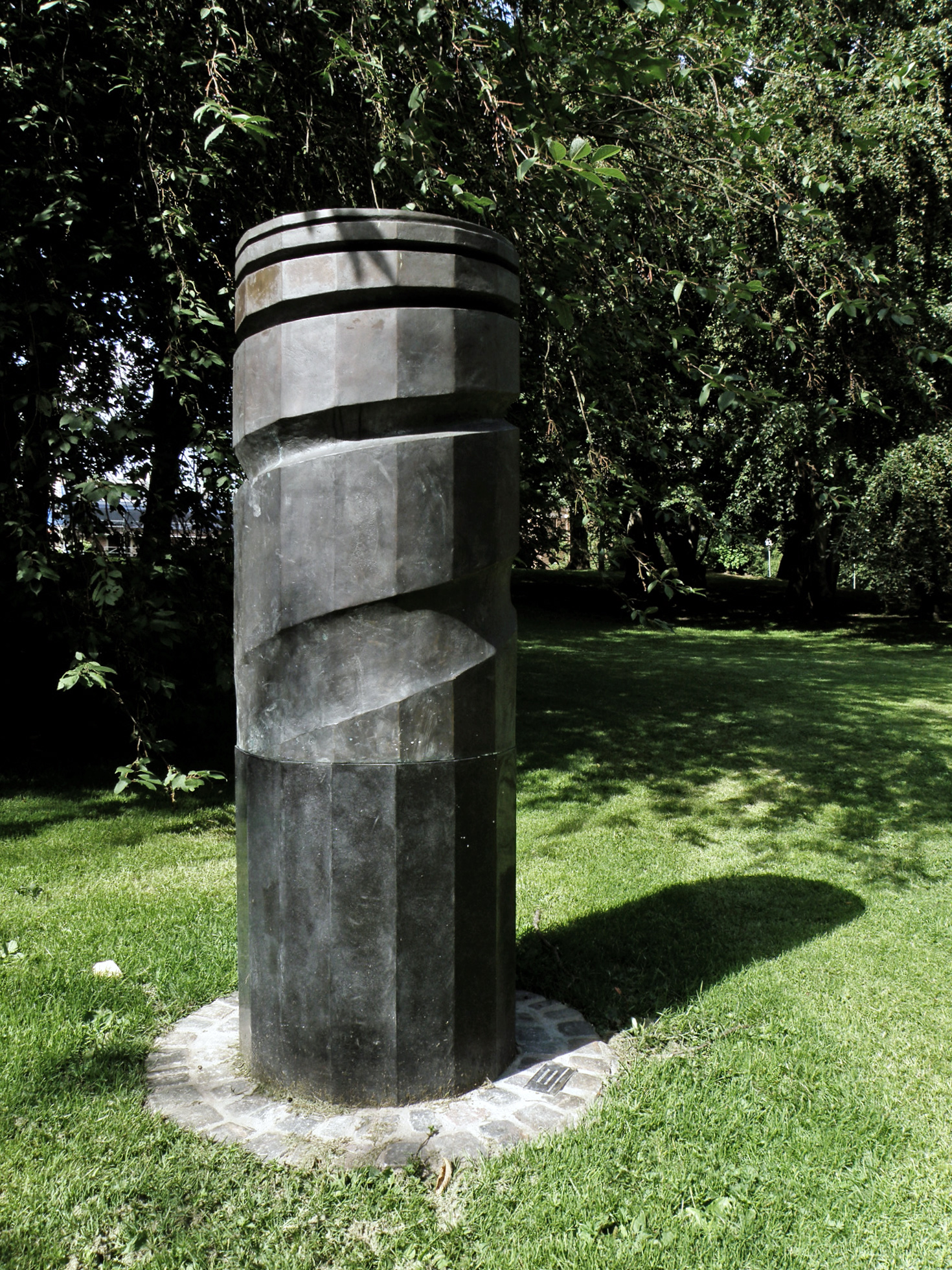 Acceleration, by Ida Isaksson-Sillén, sculpture in bronze and stone, 2000, Gothenburg, Sweden.